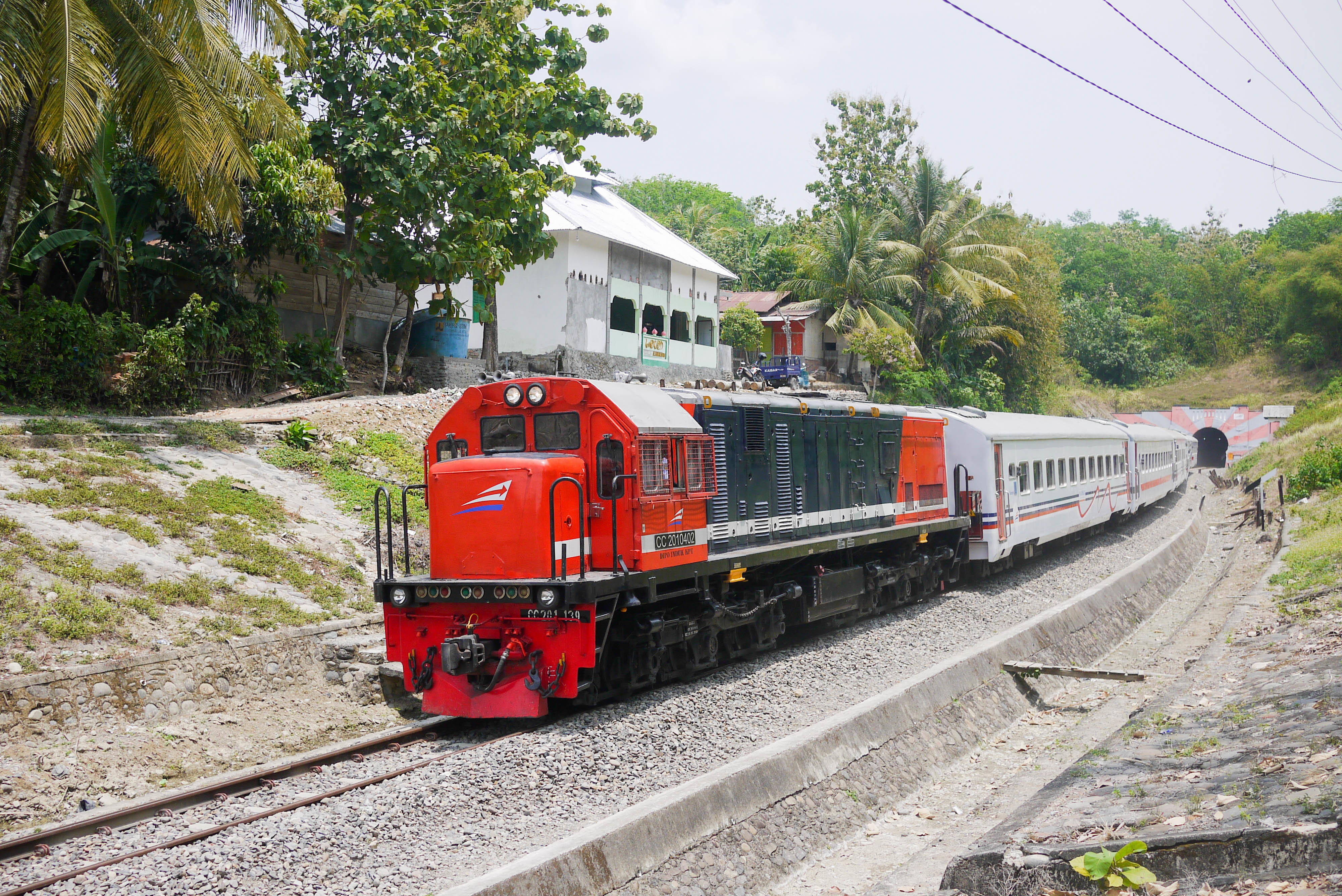 KA S6c Bukit Serelo exiting Gunung Gajah Tunnel